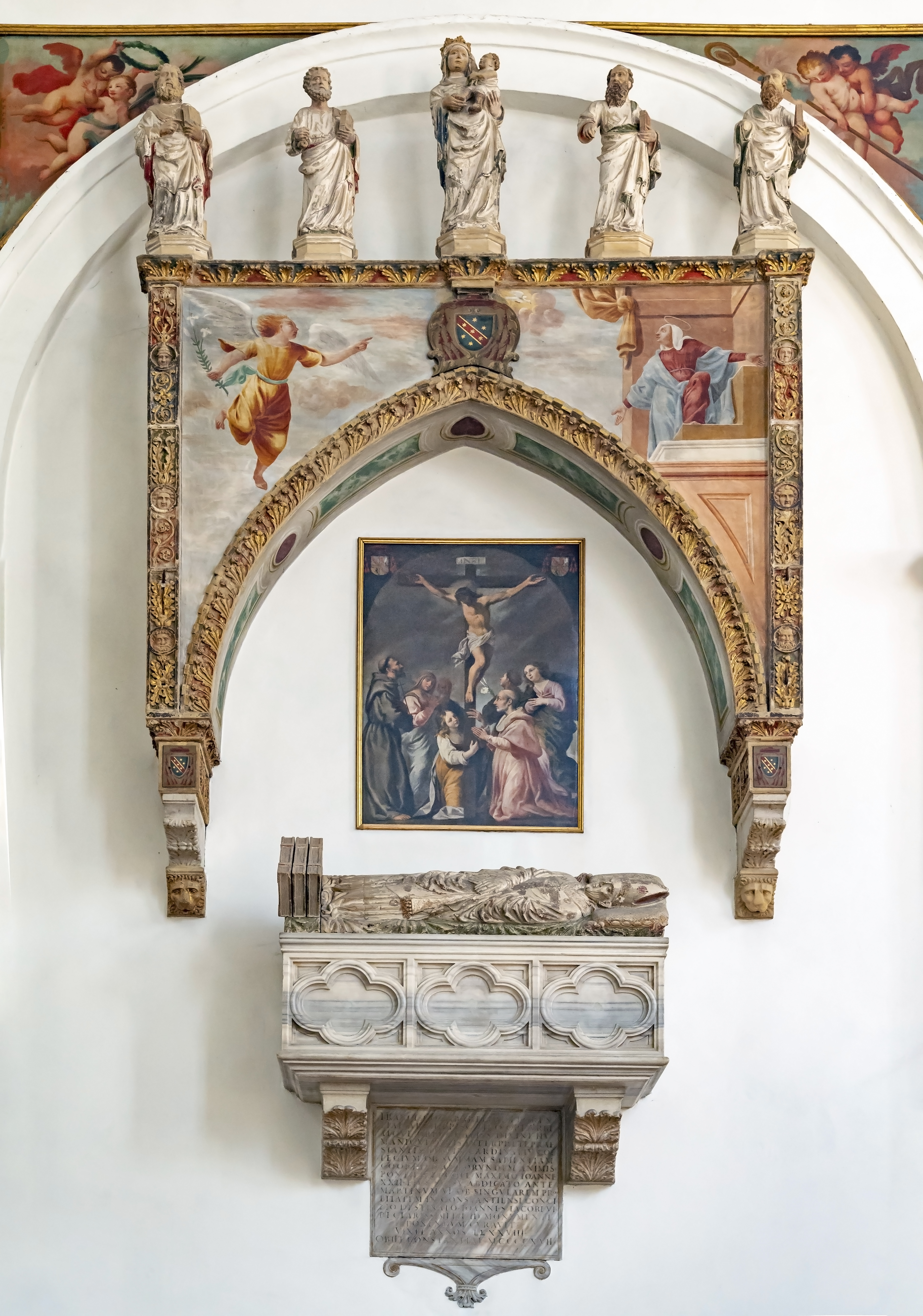 Sepulchral Gothic monument of Cardinal Francesco Zabarella (1360-1417), bishop of Florence and professor of canon law at the University of Padua. The monument is completed at the top by an ogival archosolium surmounted by five statues with the Madonna and Child and four saints, perhaps of Rinaldino da Francia (1397) and decorated with frescoes, with the Annunciation. Under the arcosolium, a canvas depicting the Crucifixion of Luca Ferrari of Reggio.